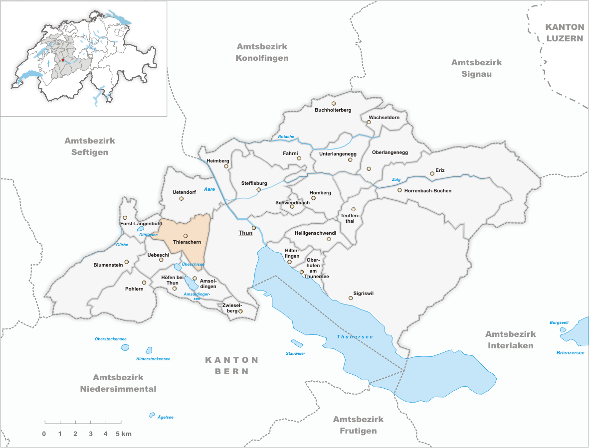 Municipality Thierachern